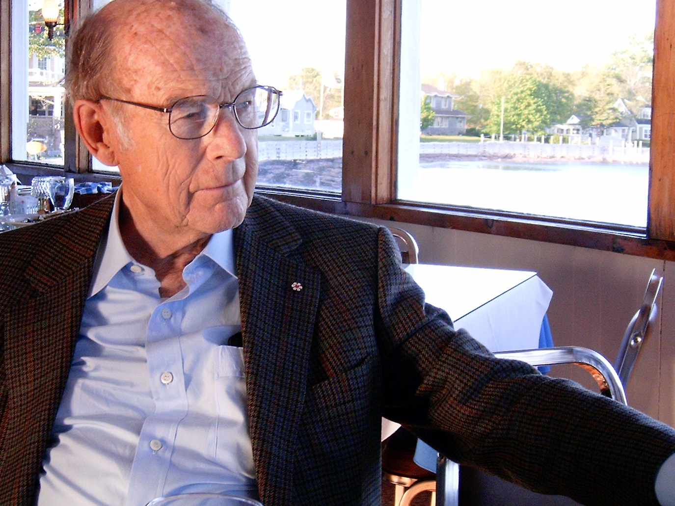 Rowland Frazee in St. Andrews, New Brunswick